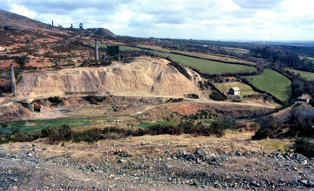 South Caradon Mine workings 1979